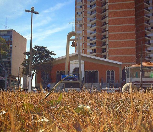 Igreja de Nossa Senhora da Glória - Marília SP